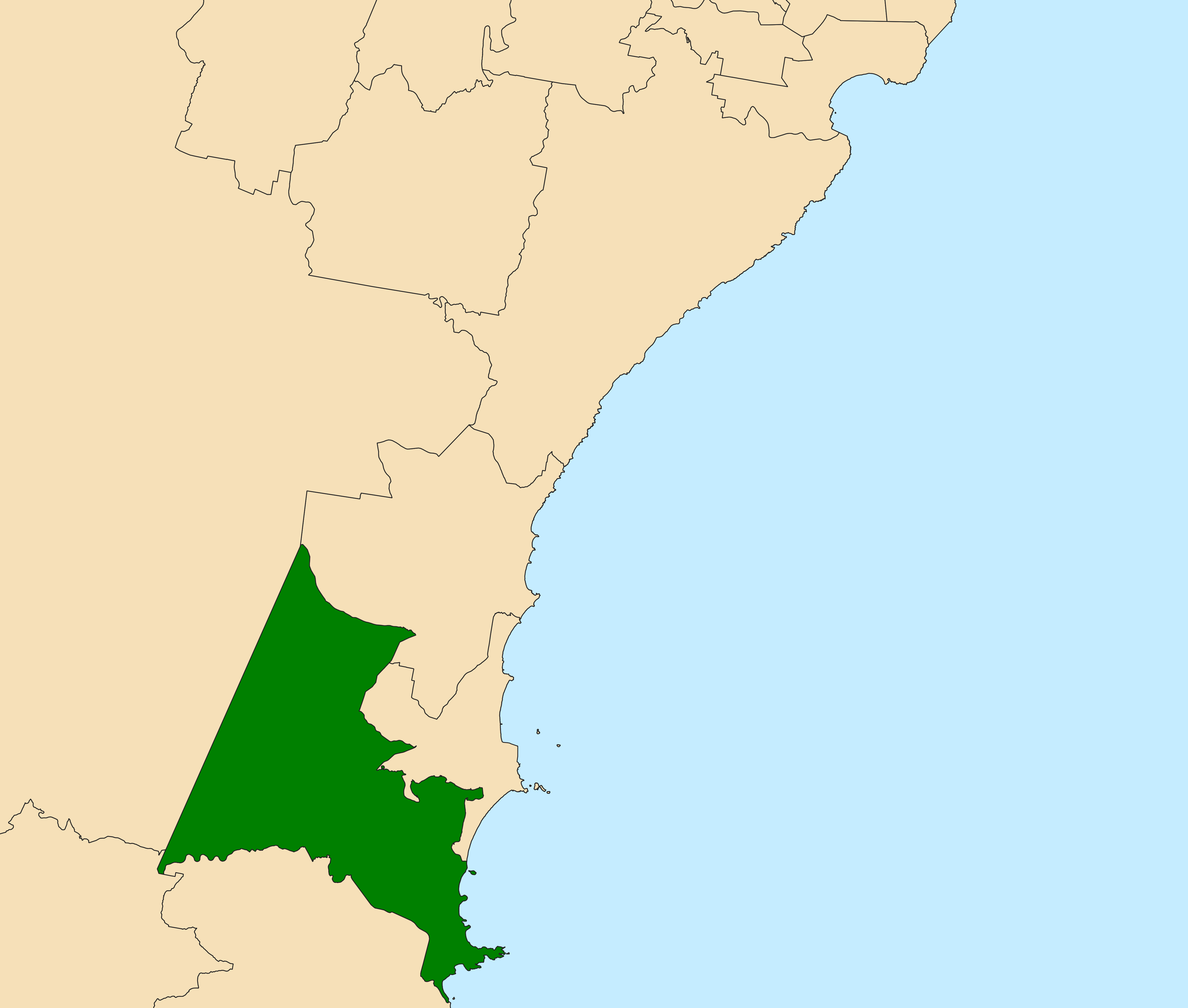 Location of the state electoral district of Shellharbour (dark green) in the Illawarra region of New South Wales, Australia as of the 2019 New South Wales state election. Incorporates or developed using Administrative Boundaries ©PSMA Australia Limited licensed by the Commonwealth of Australia under Creative Commons Attribution 4.0 International licence (CC BY 4.0).